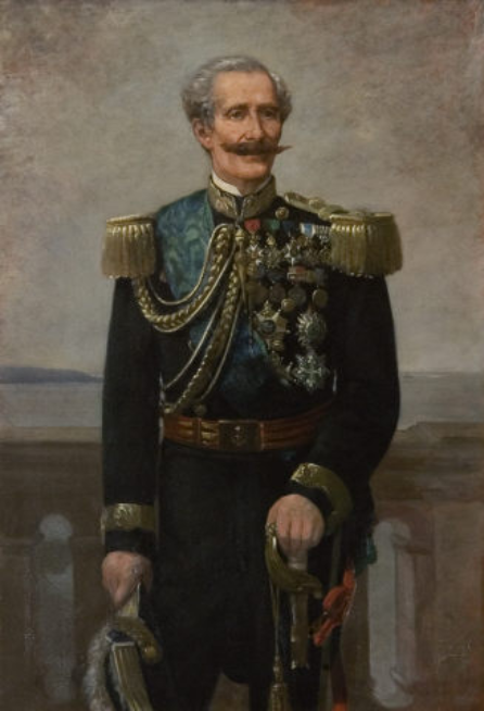 Portrait of Vice Admiral The Viscount of Soares Franco (1886), by Félix da Costa. In the collections of the Navy Museum, Lisbon, Portugal Аҧсшәа: Retrato do Vice-Almirante Visconde de Soares Franco (1886), da autoria de Félix da Costa. Nas colecções do Museu de Marinha, Lisboa, Portugal